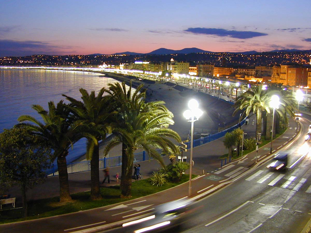 A view along the Quai des États-Unis and the Promenade des Anglais in Nice at night. Picture taken from the hotel Suisse.